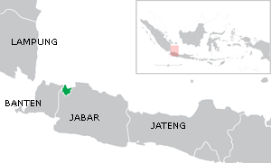 Районы Индонезии